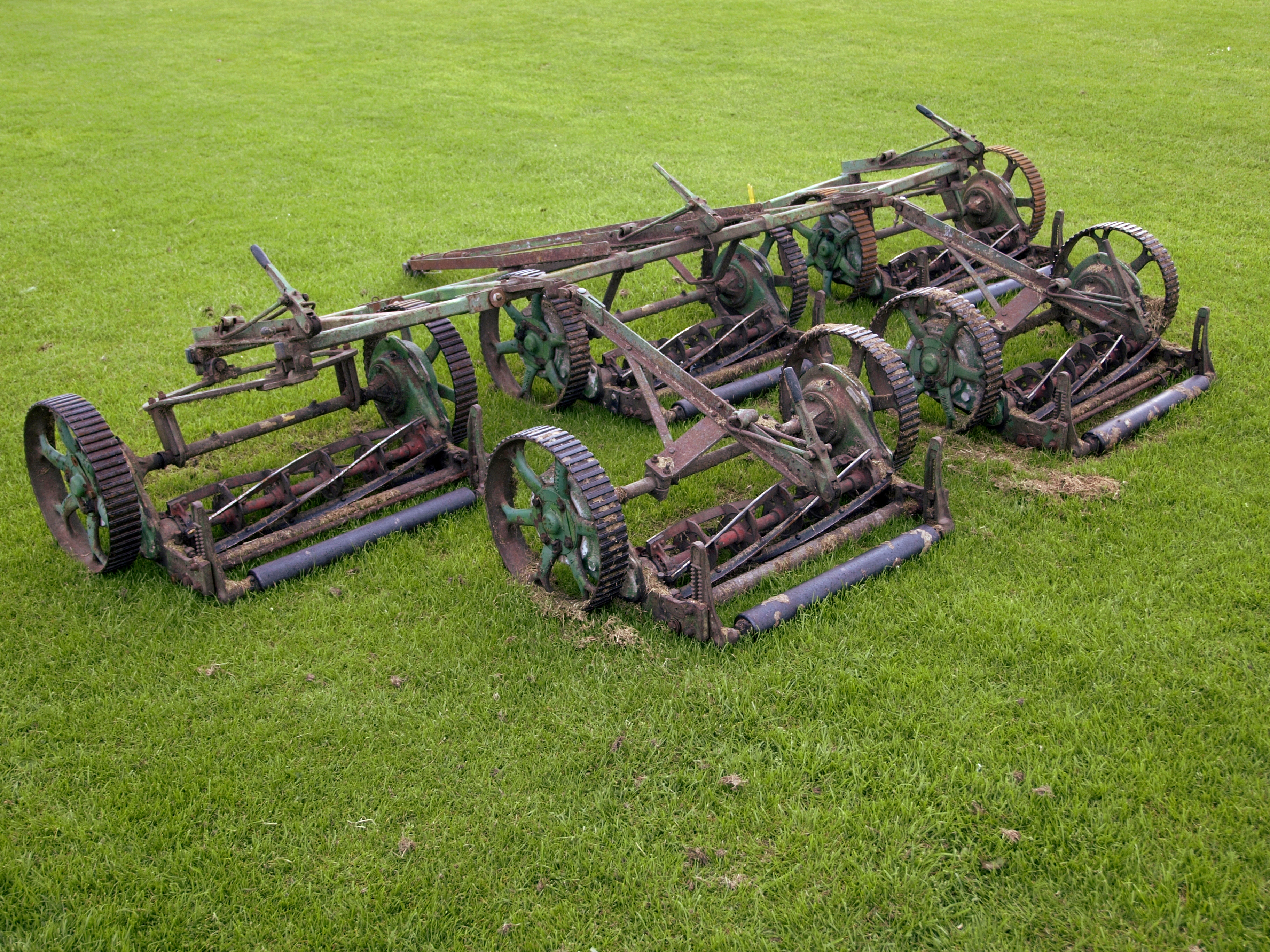 Reel mower for mowing large areas. Seen in Scotland (Beauly).